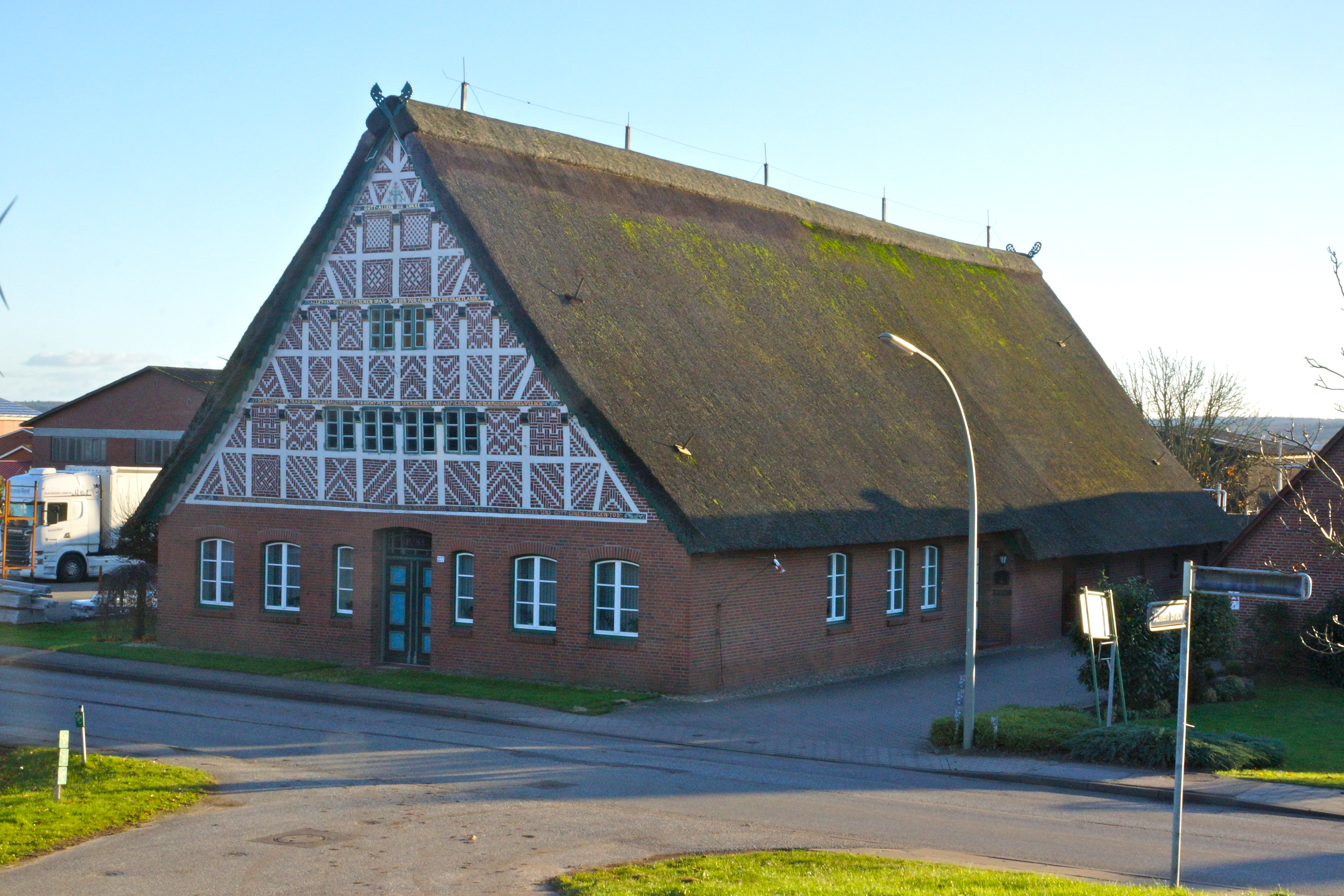 Hamburg (Francop), Germany: Farm (listed landmark) from the 17th century